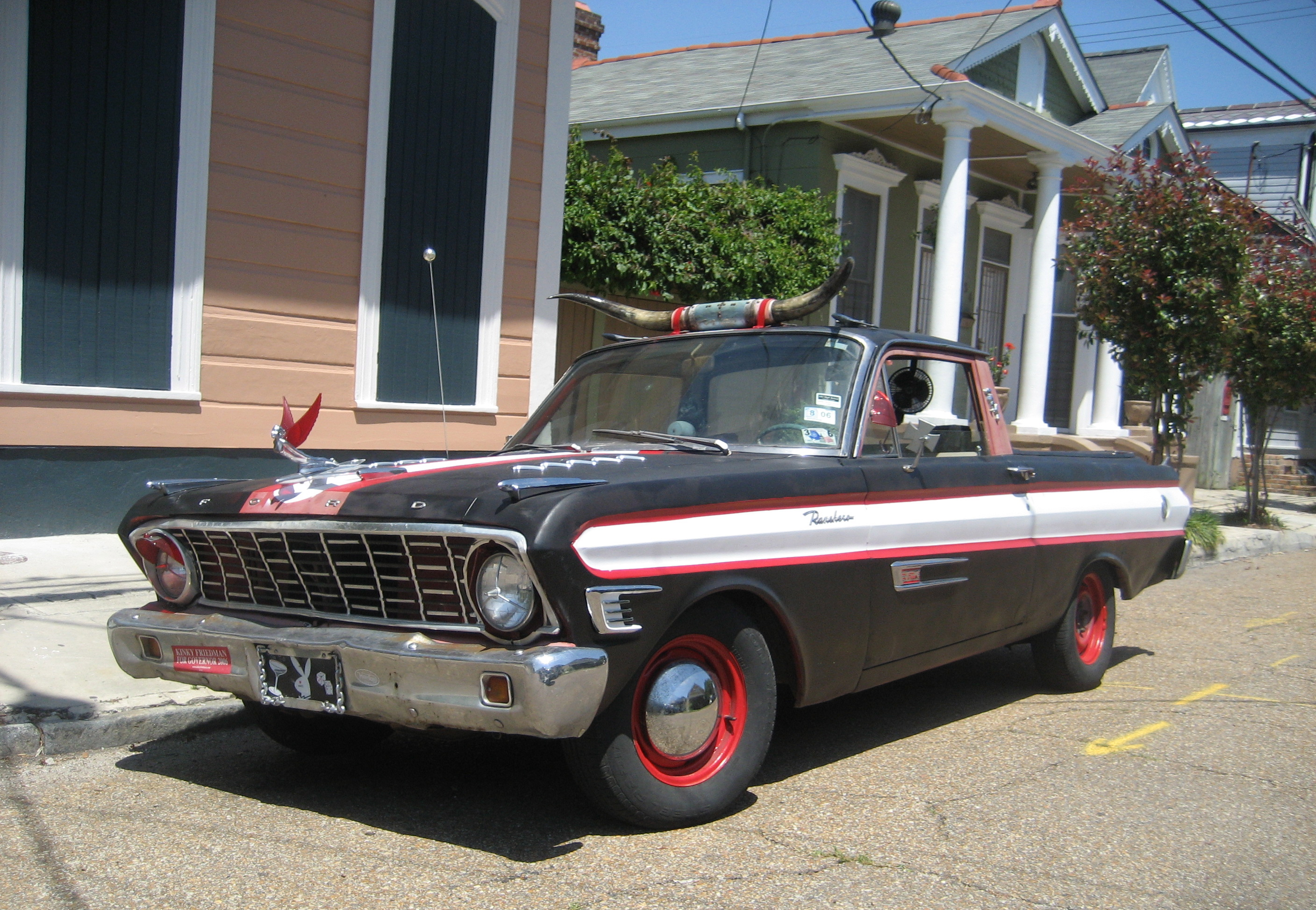 1964 Ford Falcon Ranchero with customization seen on street in Bywater section of New Orleans